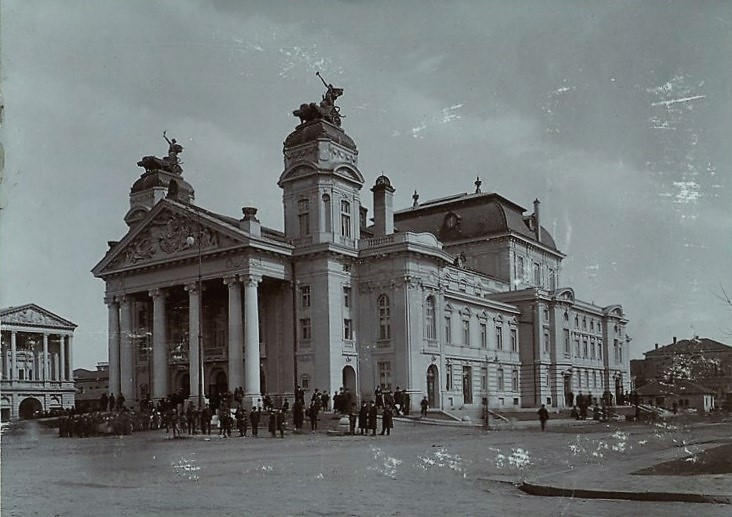 Ivan Vazov National Theatre in Sofia, Bulgaria.